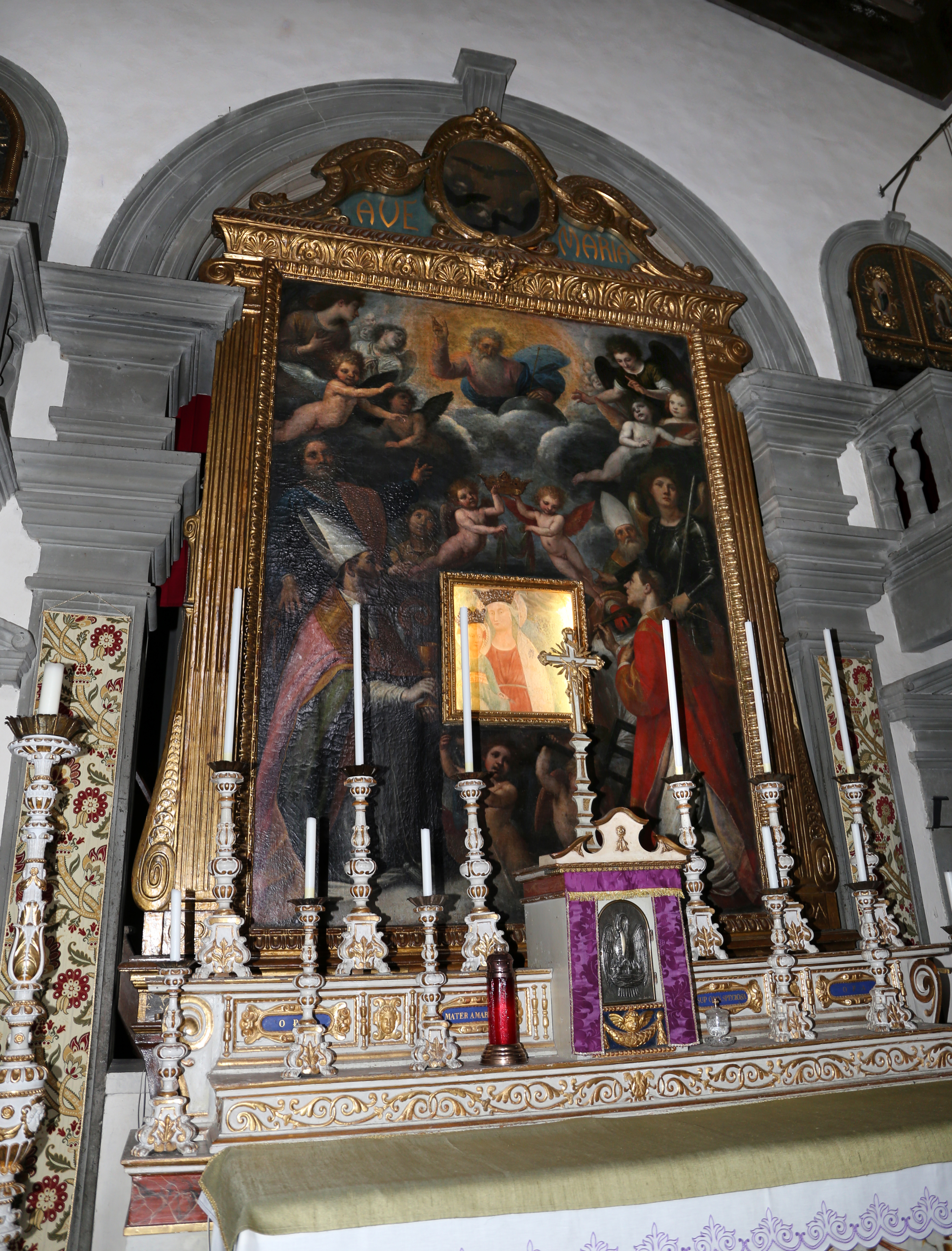 Santa Maria delle Grazie (Pietracupa)